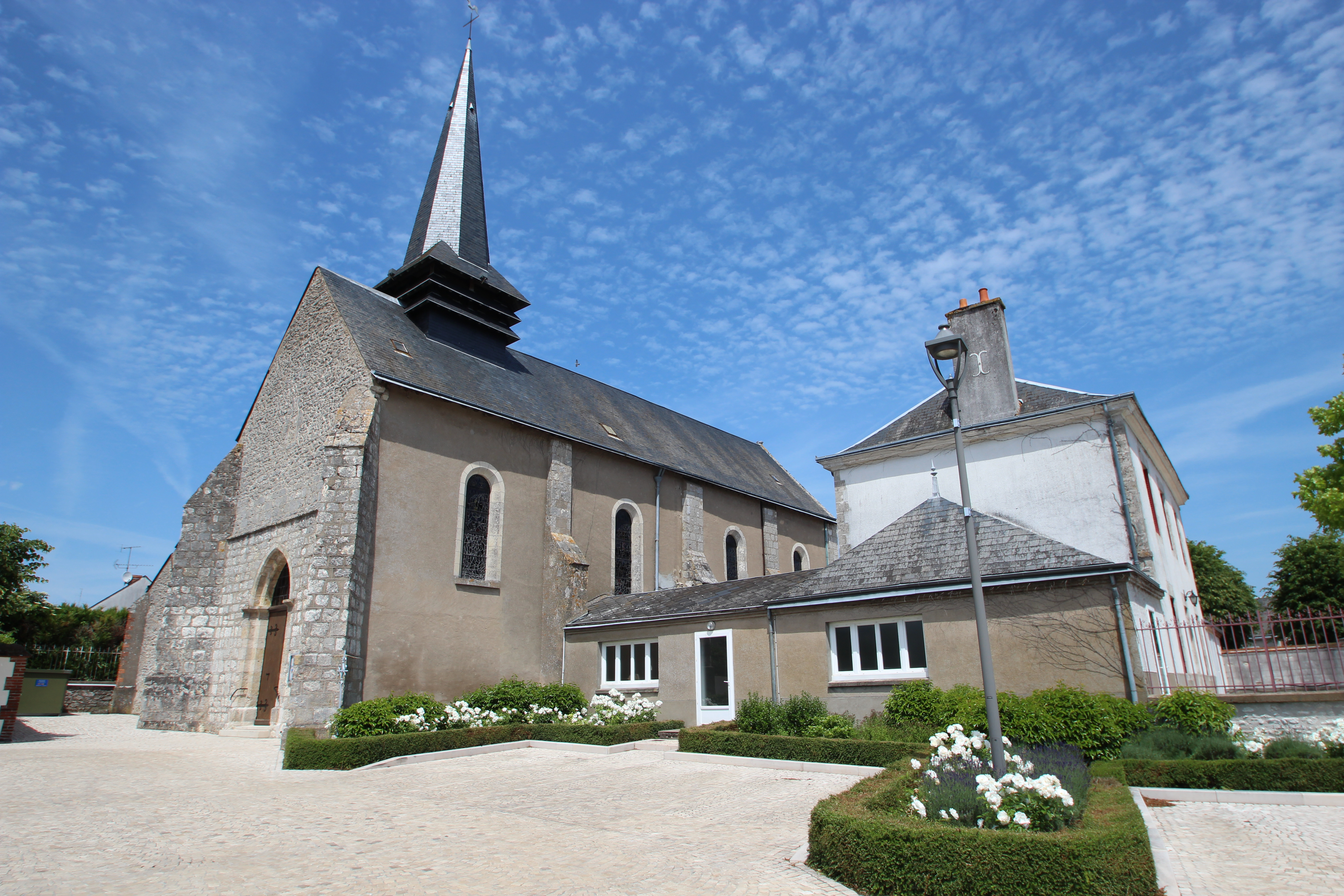 Saint-Sulpice church of Gidy, France.